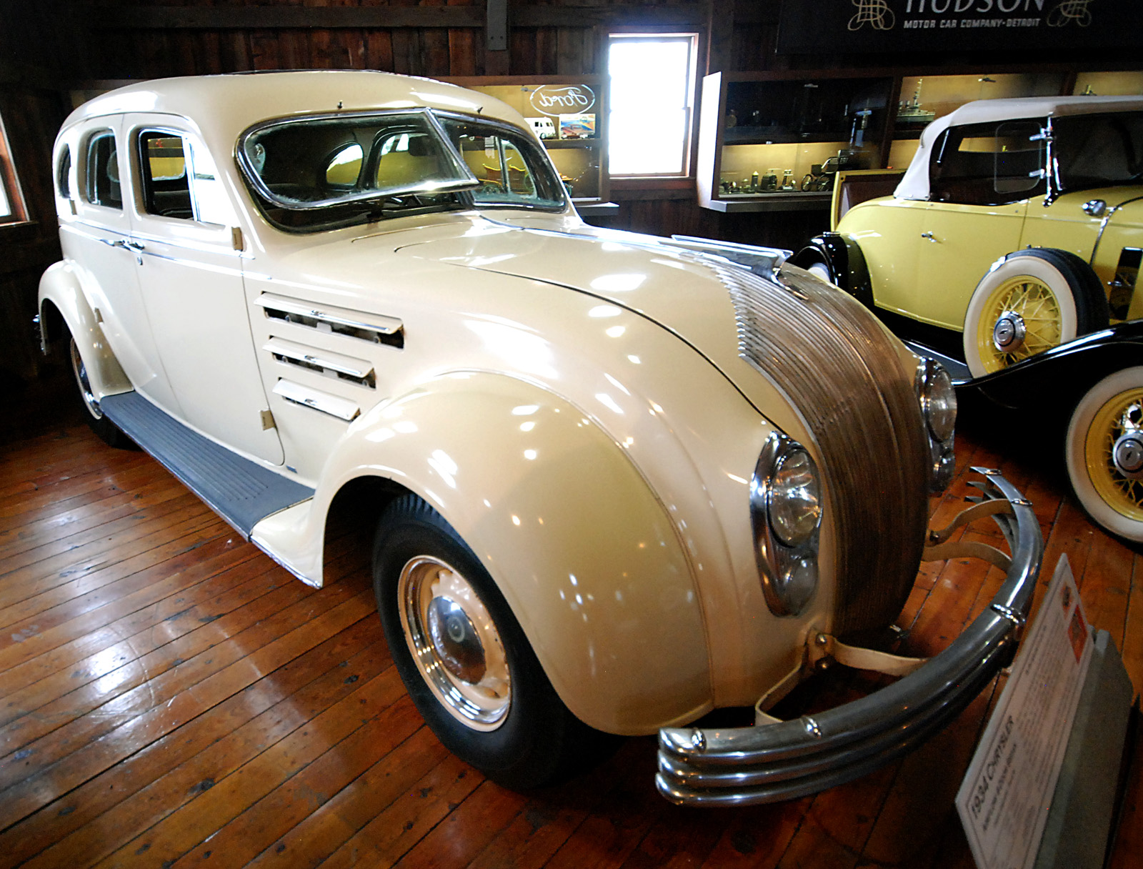 A 1934 Chrysler Airflow (Series CU) at the Gilmore Car Museum in Hickory Corners.